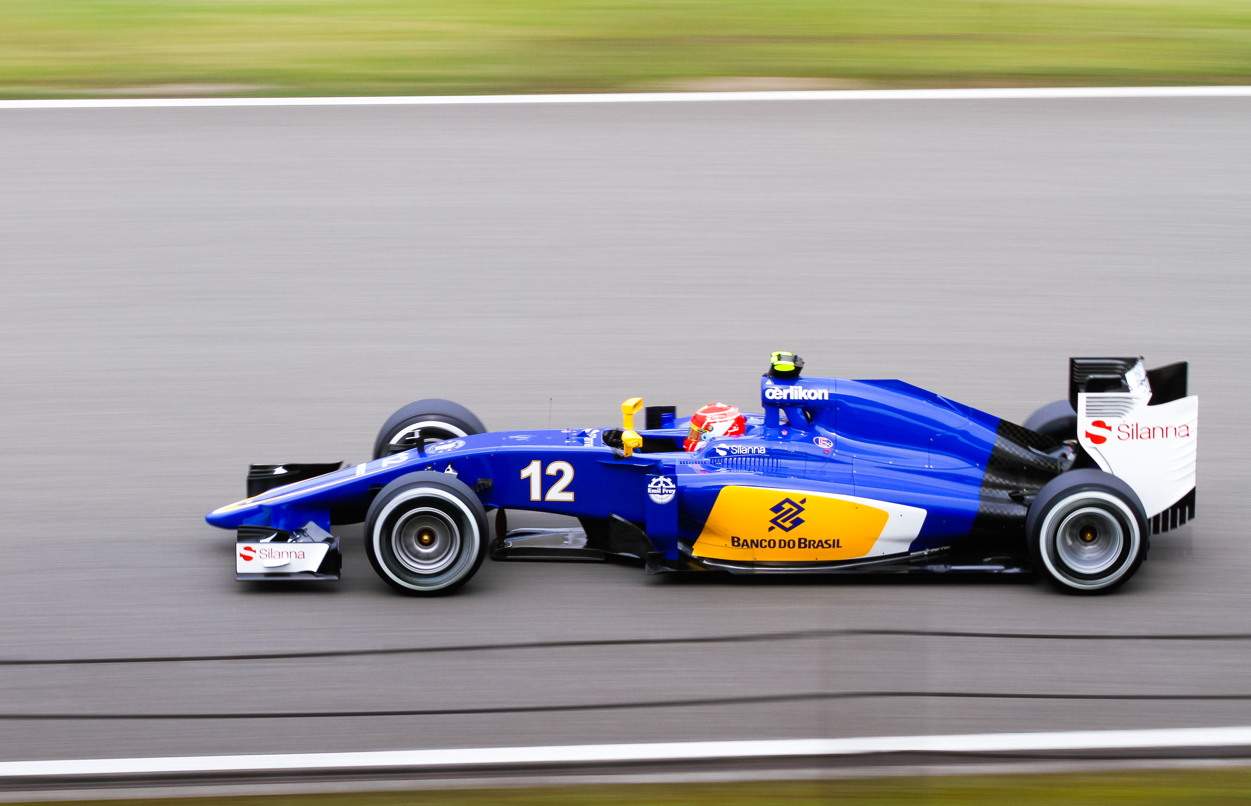 Felipe Nasr at the 2015 Chinese Grand Prix